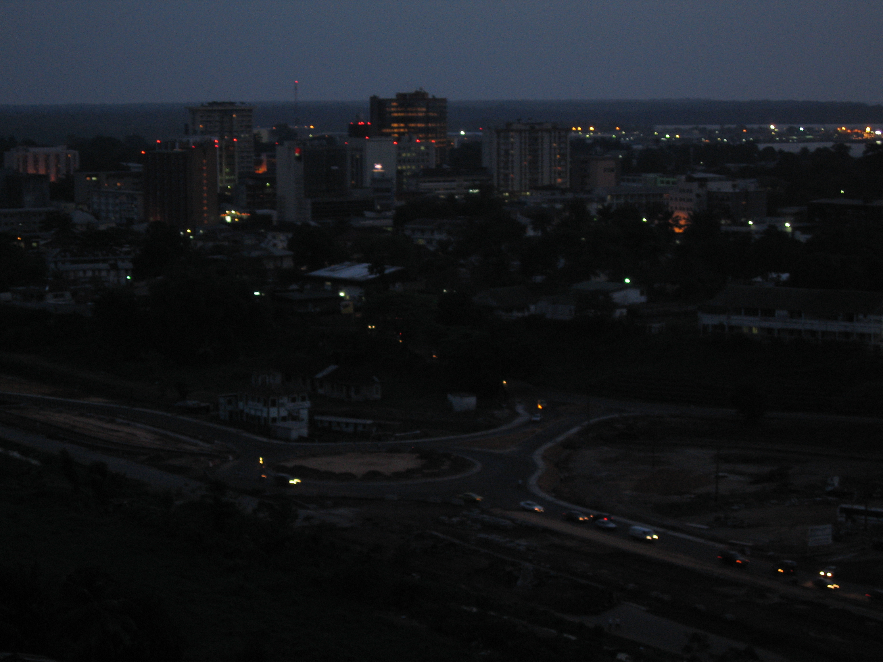 Ars&Urbis International Workshop, organized by doual'art in collaboration with iStrike Foundation, Douala, 2007. Research documentation by Emiliano Gandolfi.